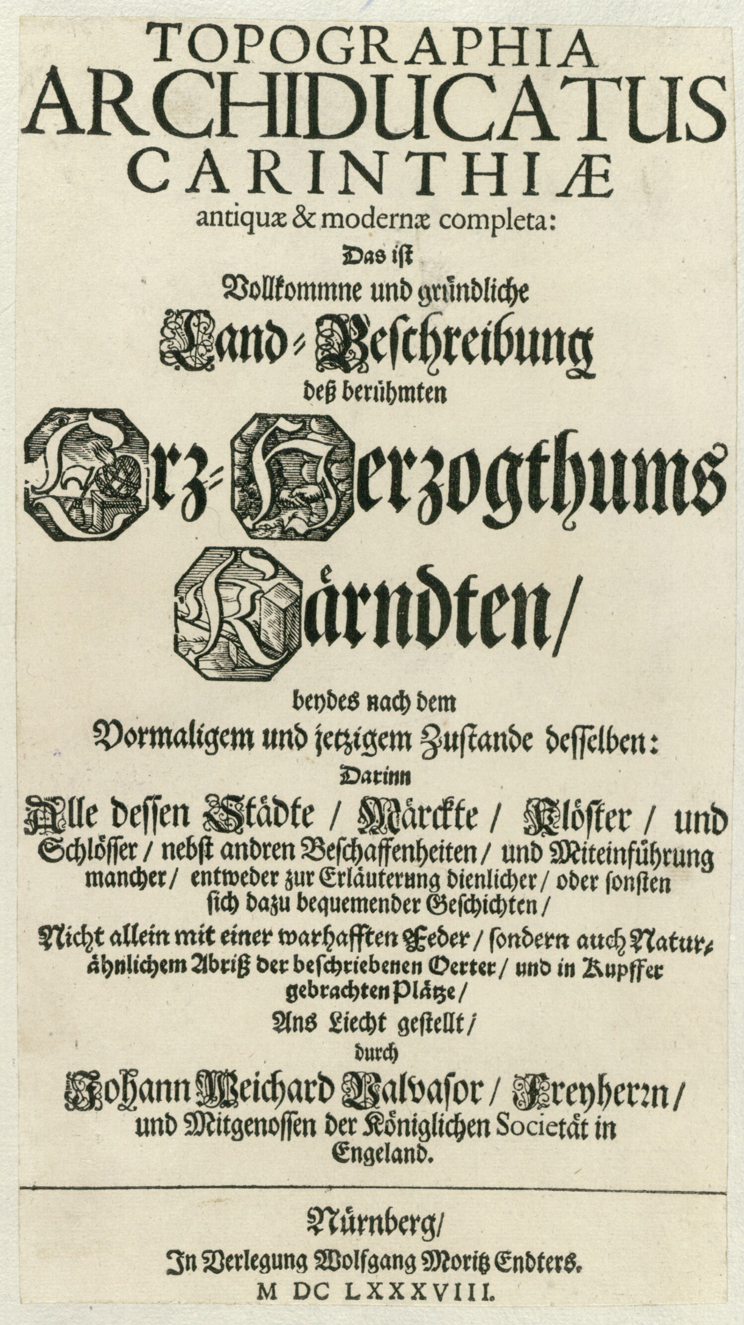 Front page of the Topographia Archiducatus Carinthiae antiquae et modernae completa book